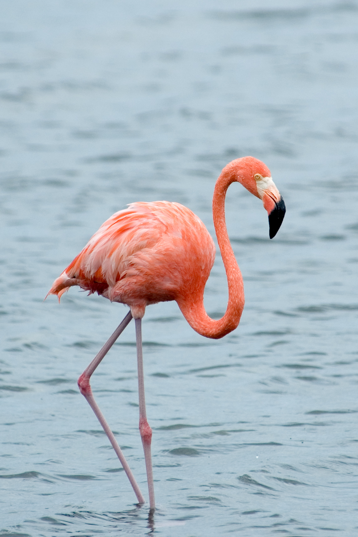 American Flamingo Phoenicopterus ruber at Gotomeer, Riscado, Bonaire